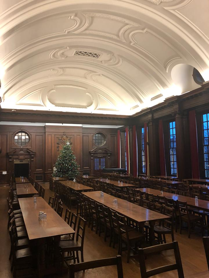 Somerville College Oxford, Hall from High Table